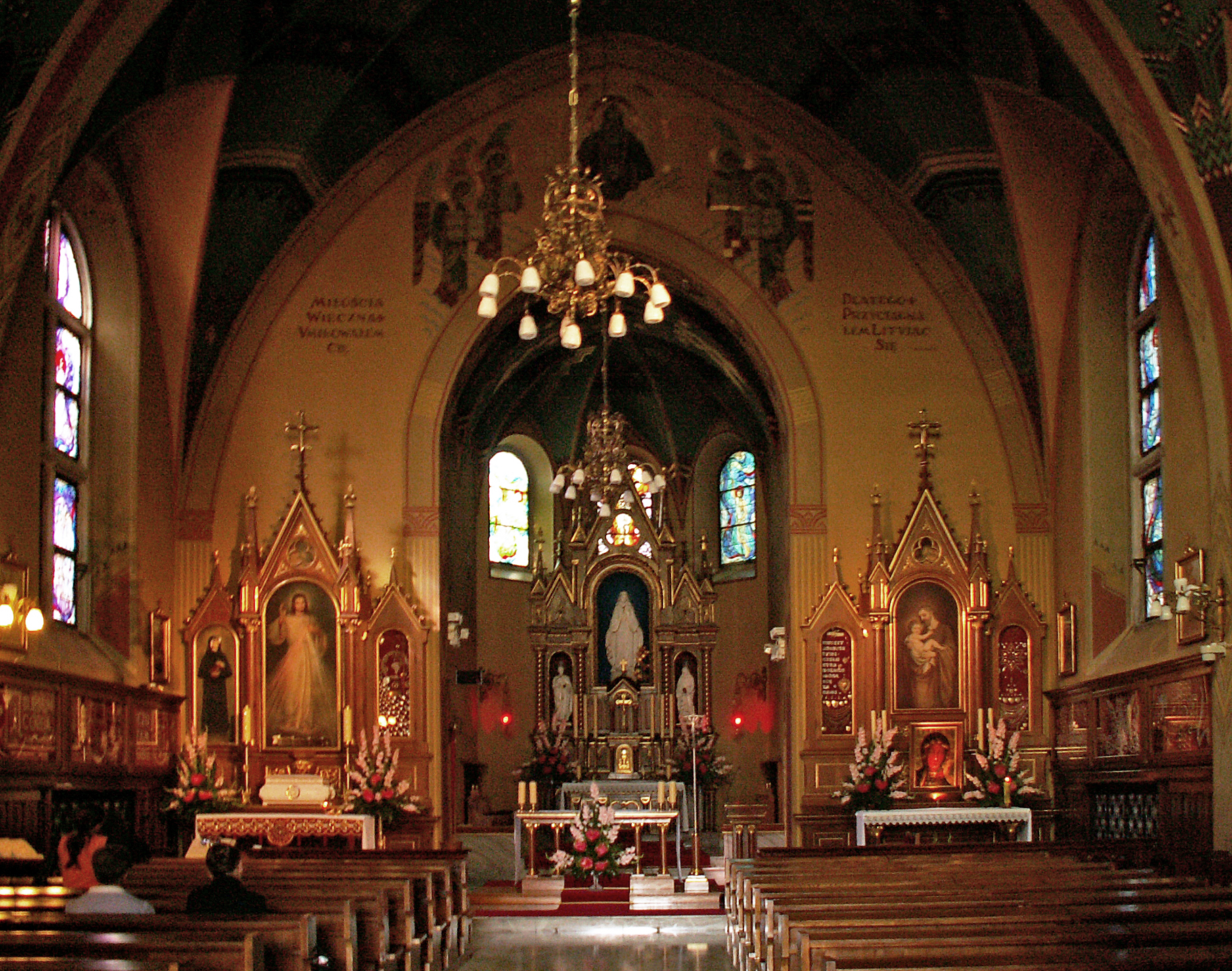 St. Joseph Chapel (interior), 3 Siostry Faustyny street, Lagiewniki, Krakow, Poland